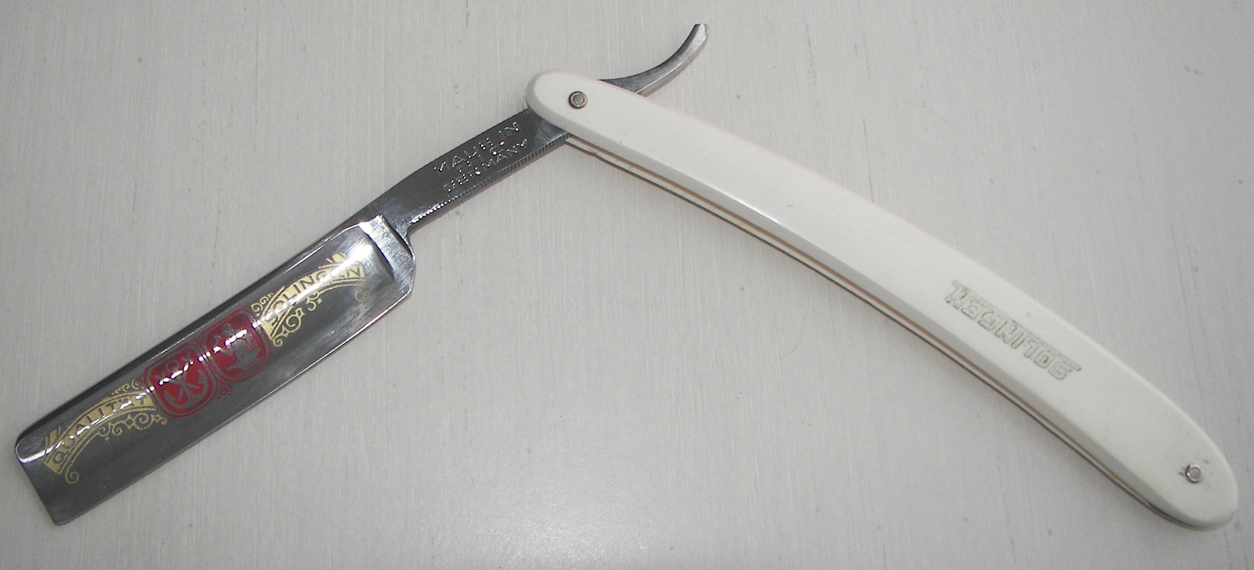 See filename above